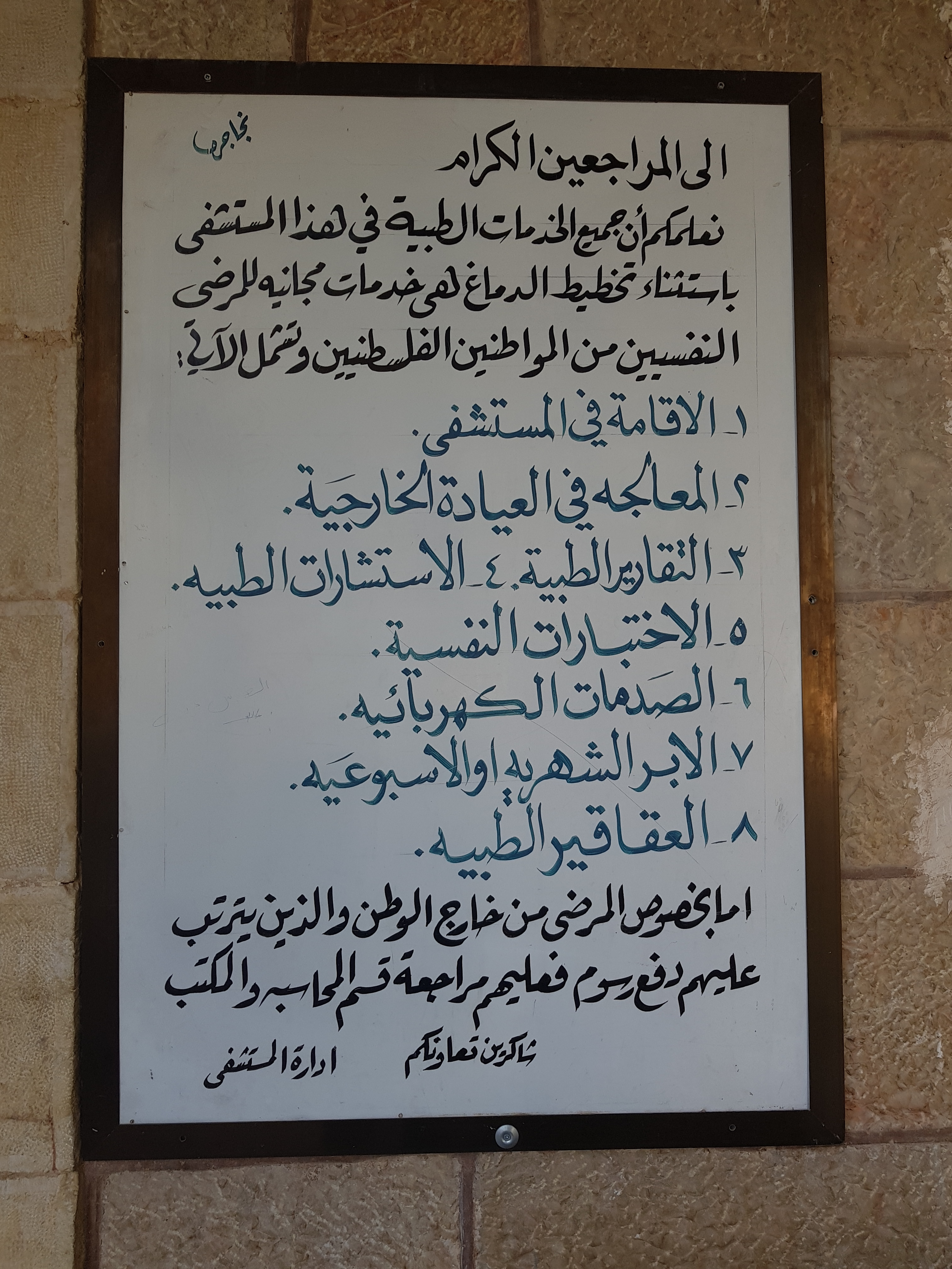 List of services in Bethlehem psychiatric hospital.